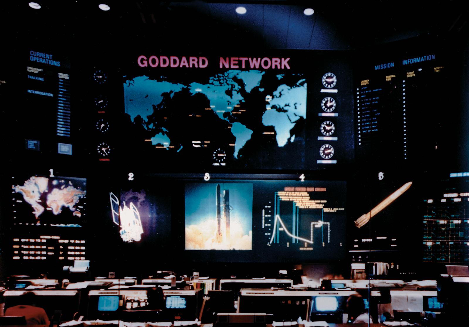 Control room of the Goddard Network, a network of ground stations used to track spacecraft.